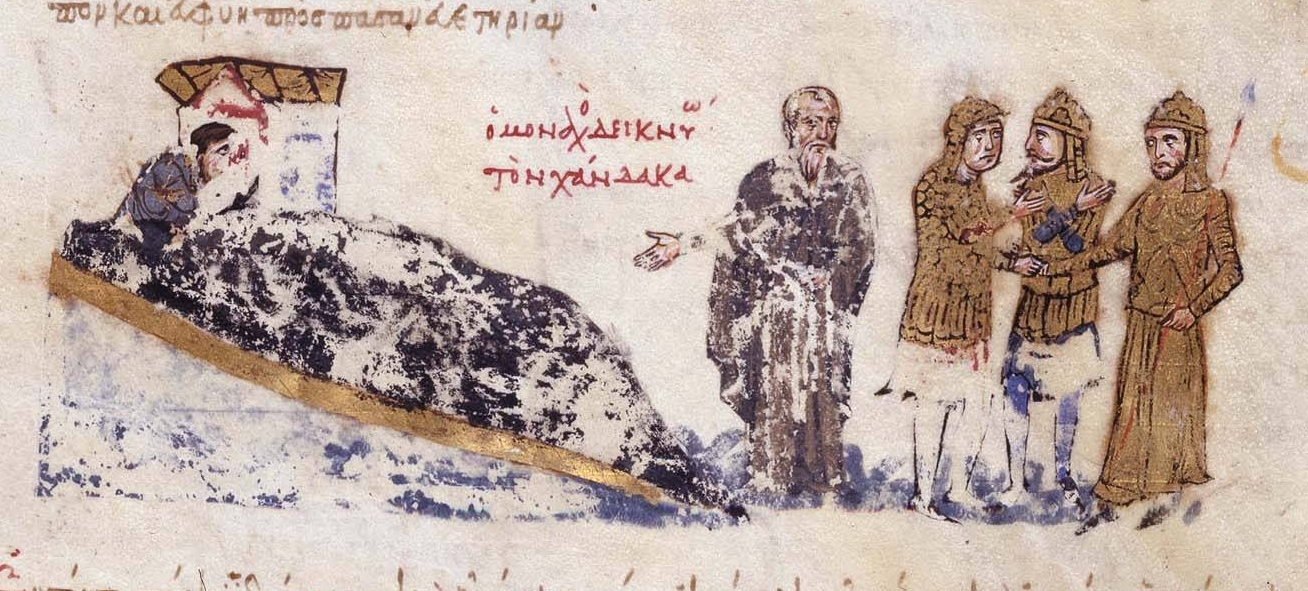 A monk shows the Cretan Saracens where to build Chandax